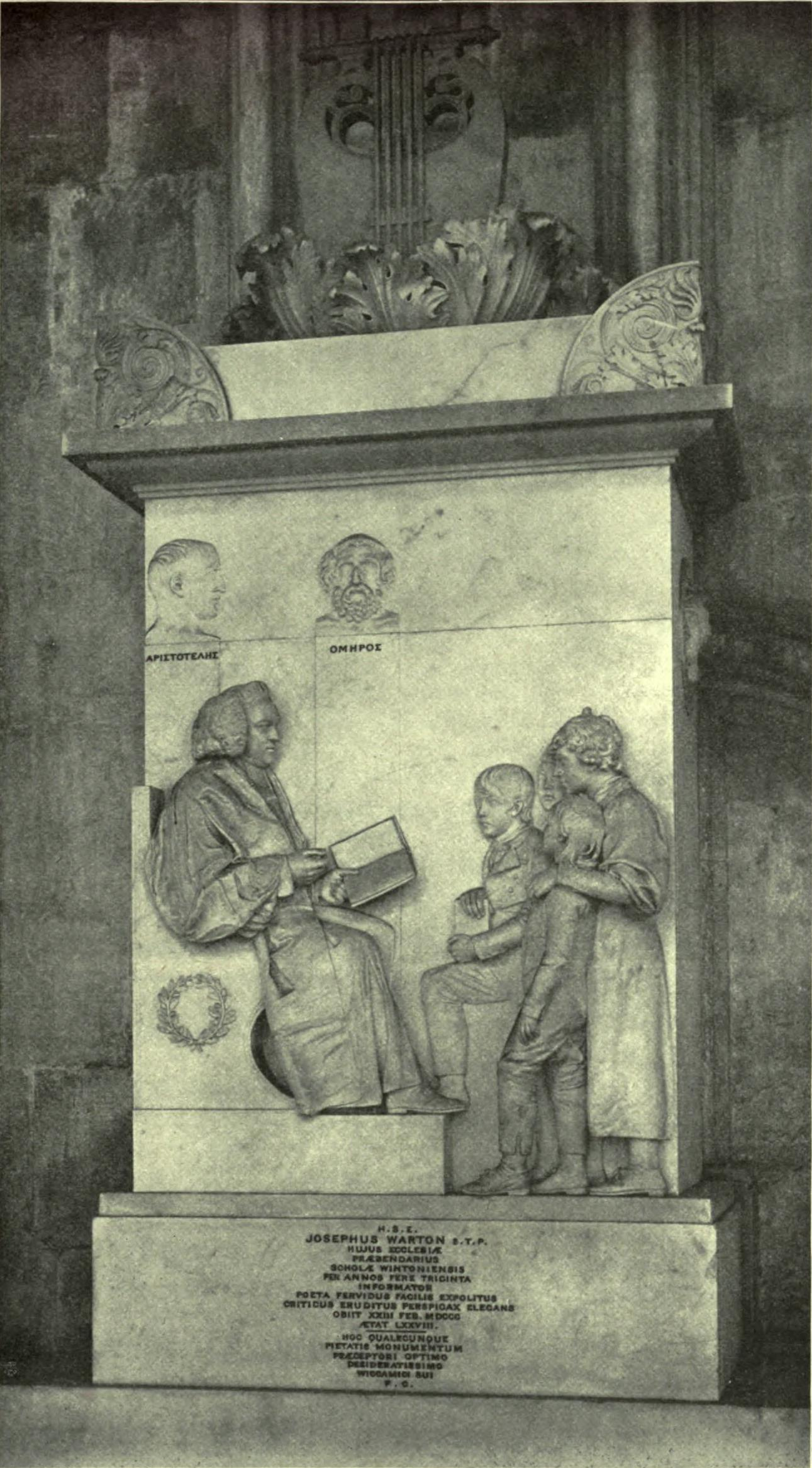 A history of Hampshire and the Isle of Wight / [edited by H. Arthur Doubleday]